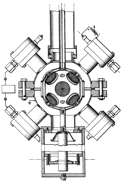 Farnsworth–Hirsch Fusor (U.S. Patent 3,386,883